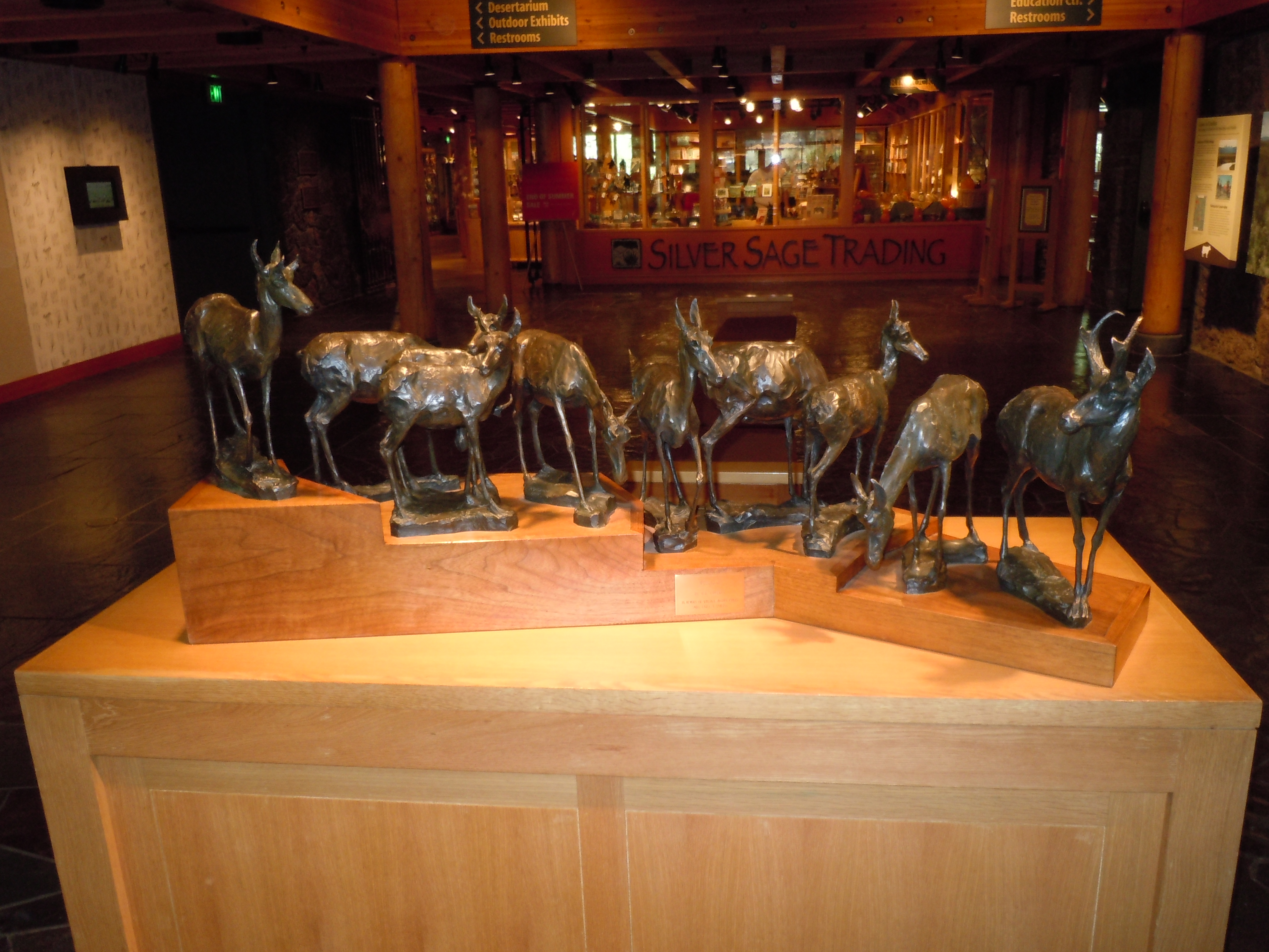 Lobby of the High Desert Museum near Bend, Oregon